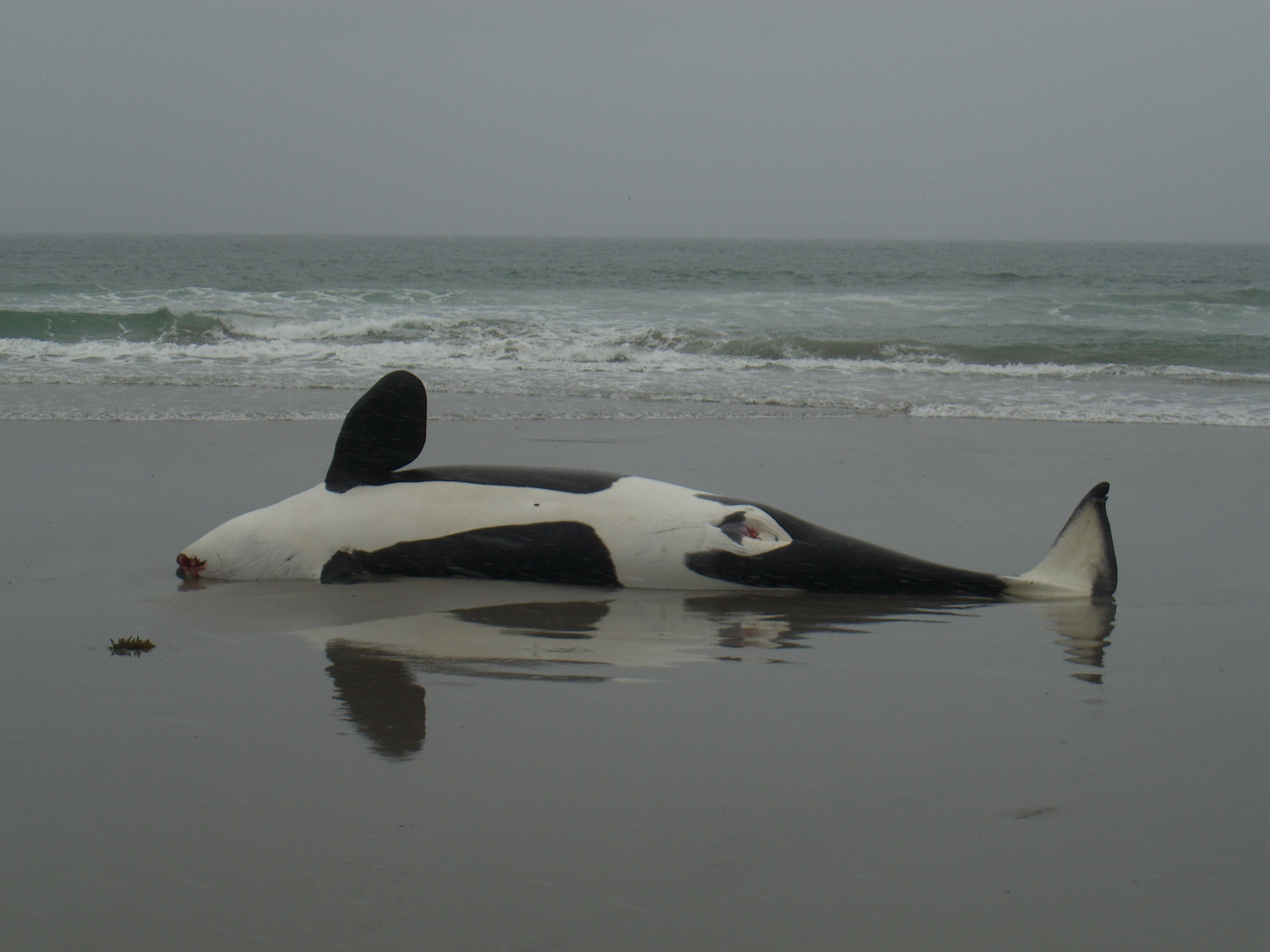 Dead killer whale on the beach of Varangerhalvøya, Norway.CIMG0708-Vardø-Vadsø